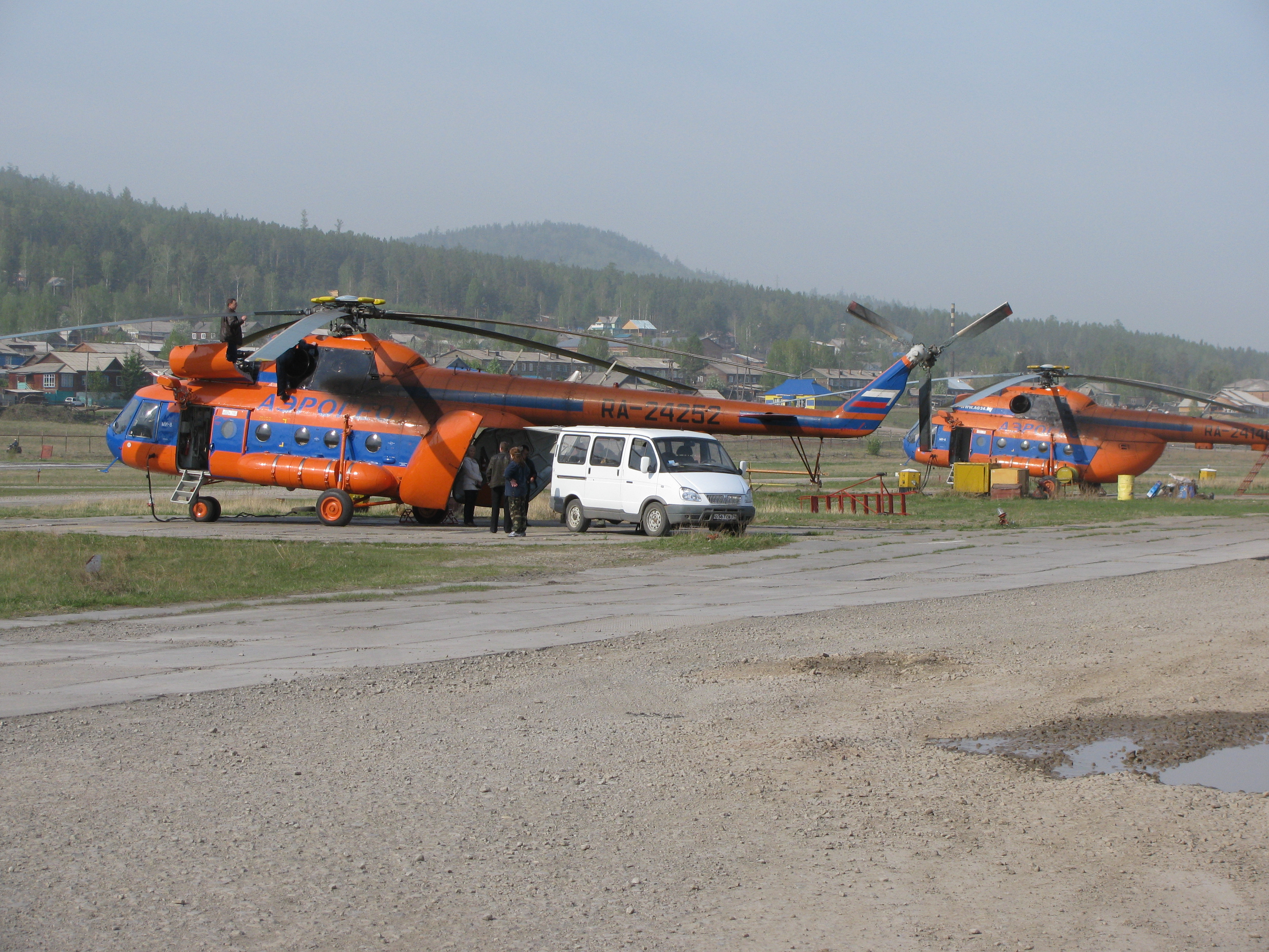 Mi-8T helicopters in Boguchany Airport, Boguchansky District, Krasnoyarsk Krai, Russia